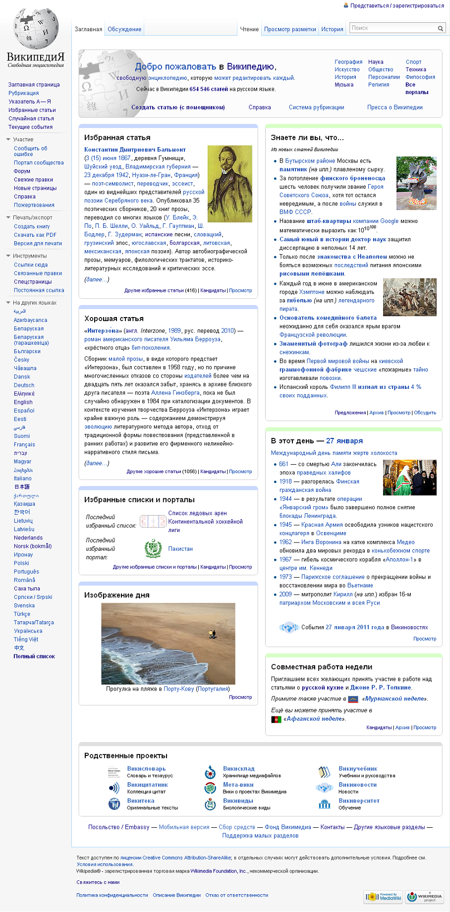 A screenshot of Russian Wikipedia.